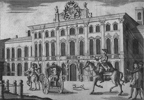 Milan - Palazzo Litta in a 18th century engraving.